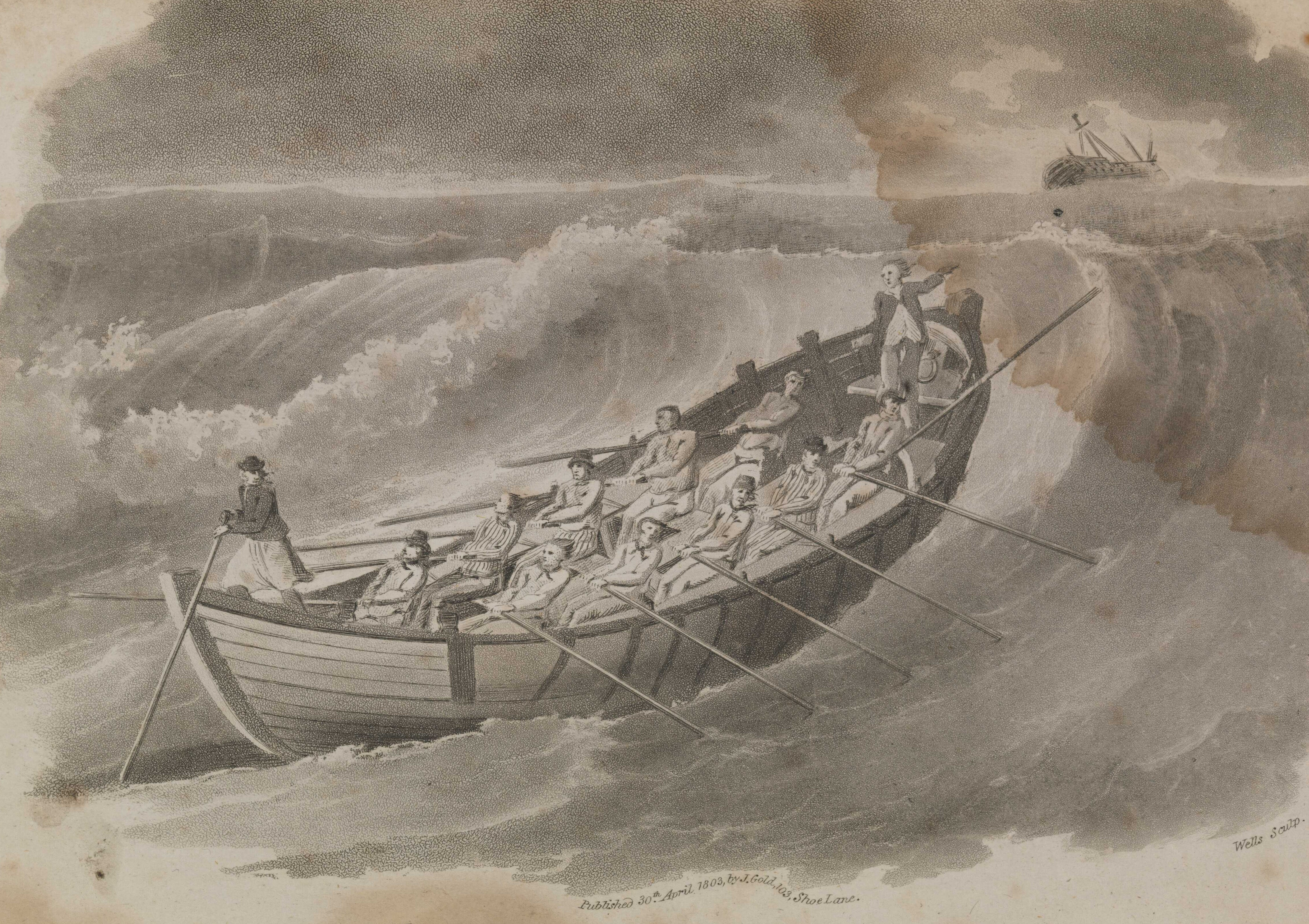 Mr Henry Greathead's Life Boat going out to assist a Ship in distress Stuck within album PAI2861 with PAI2862-PAI2949, PAI2951-PAI3061. Mounted on page with PAI2949. Mr Henry Greathead's Life Boat going out to assist a Ship in distress